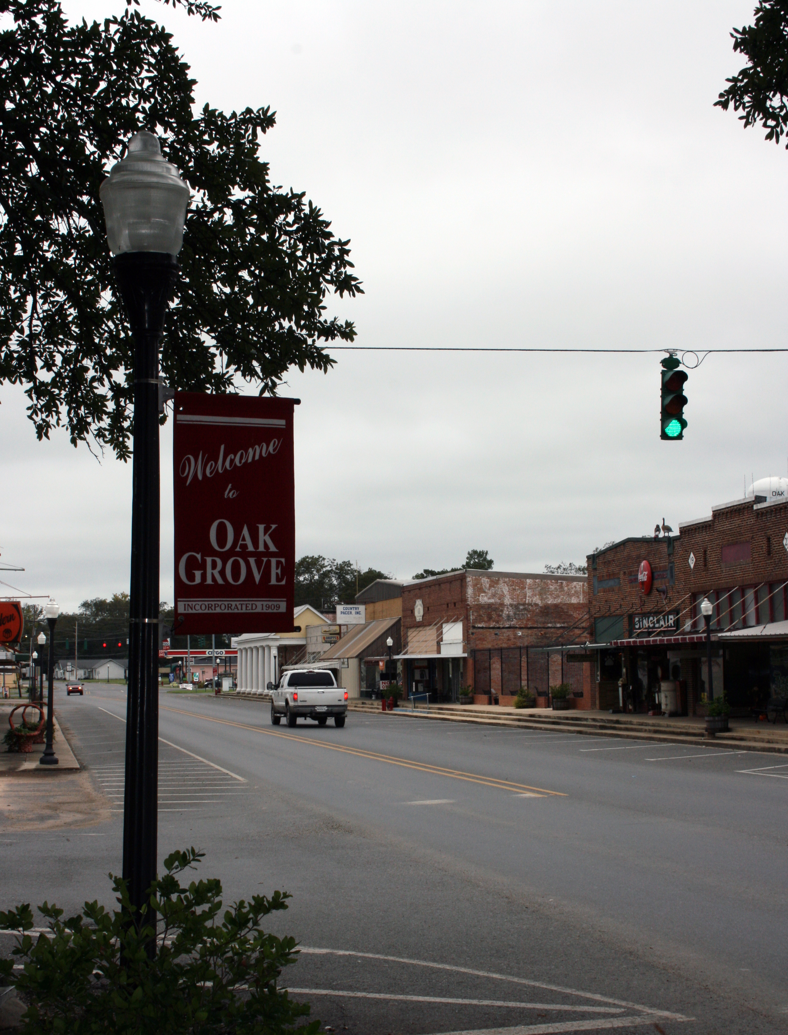 LA Highway 2 (Main Street here), facing west/north-west from the north-west corner of the court-house square. The old downtown.